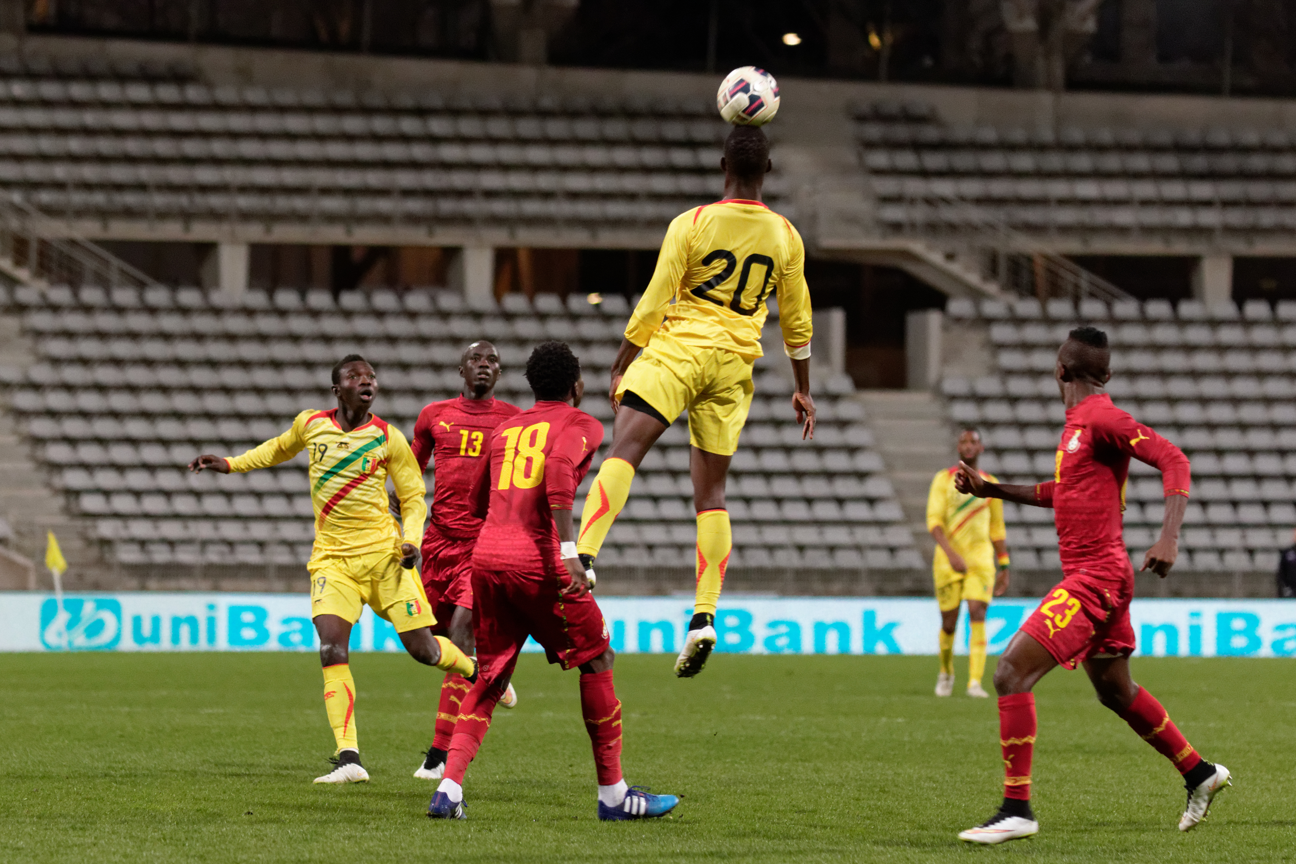 Mali vs Ghana, exhibition game at Paris, 31st March 2015.